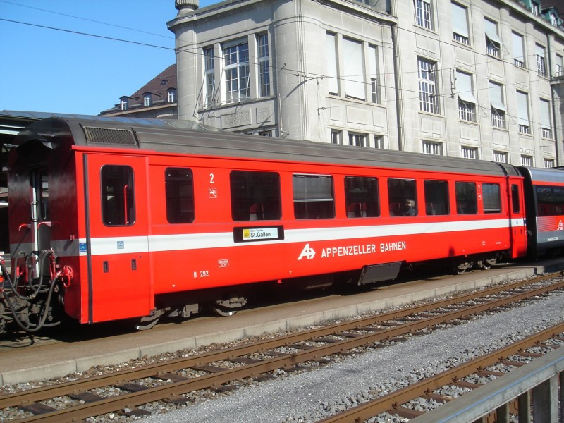 Short PA-90 coach of Appenzell Railways in St. Gallen